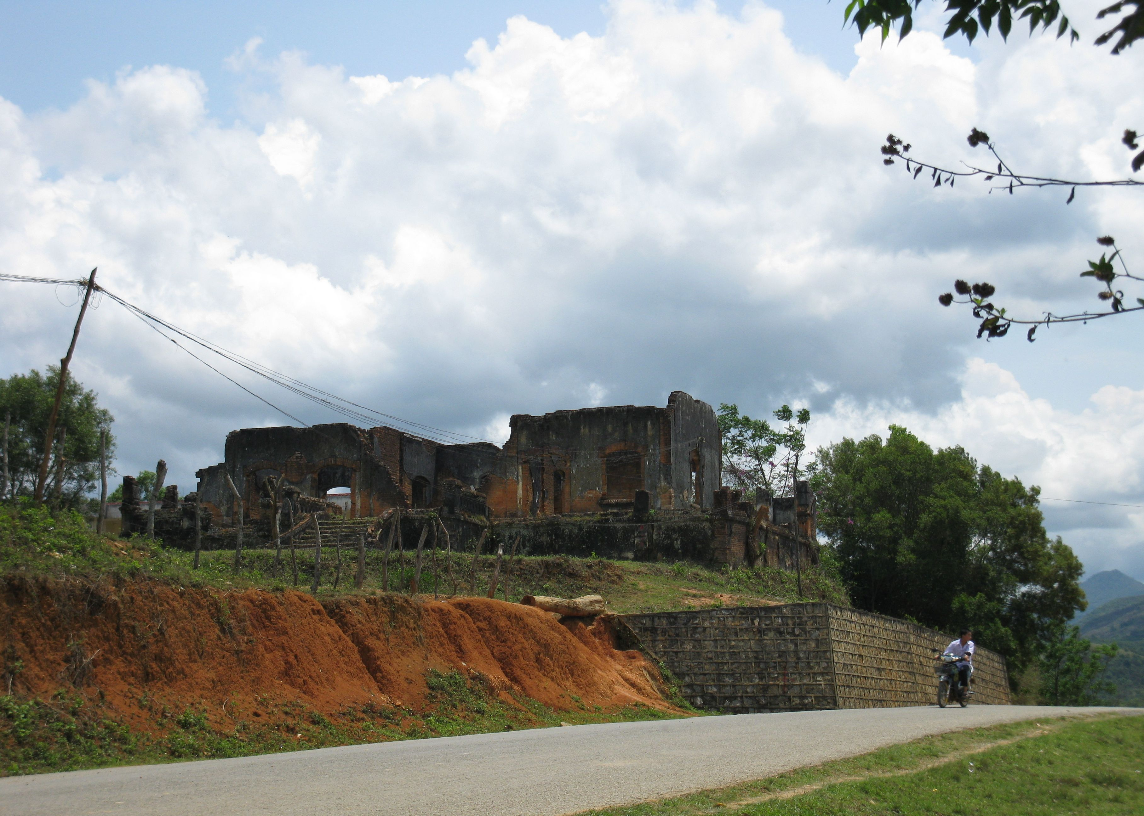 Colonial Building, Muang Khoun, Xieng Khouang Province, Laos